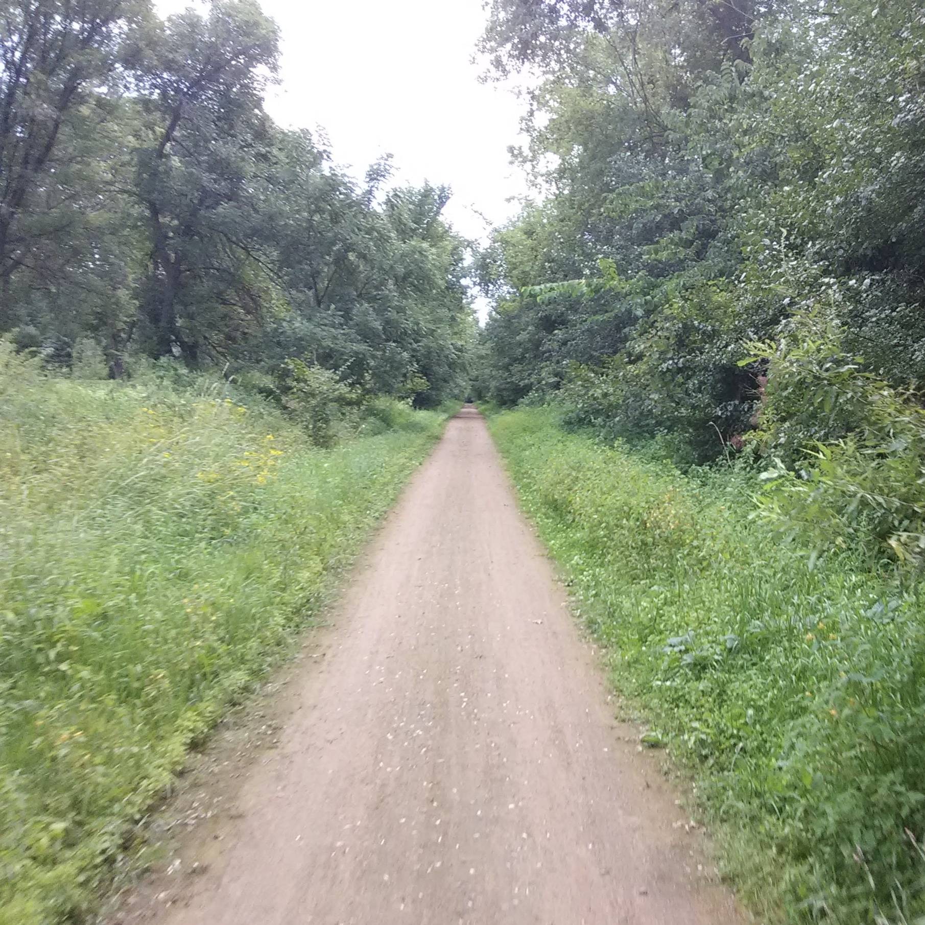 Looking east; between CR 19 and CR 110